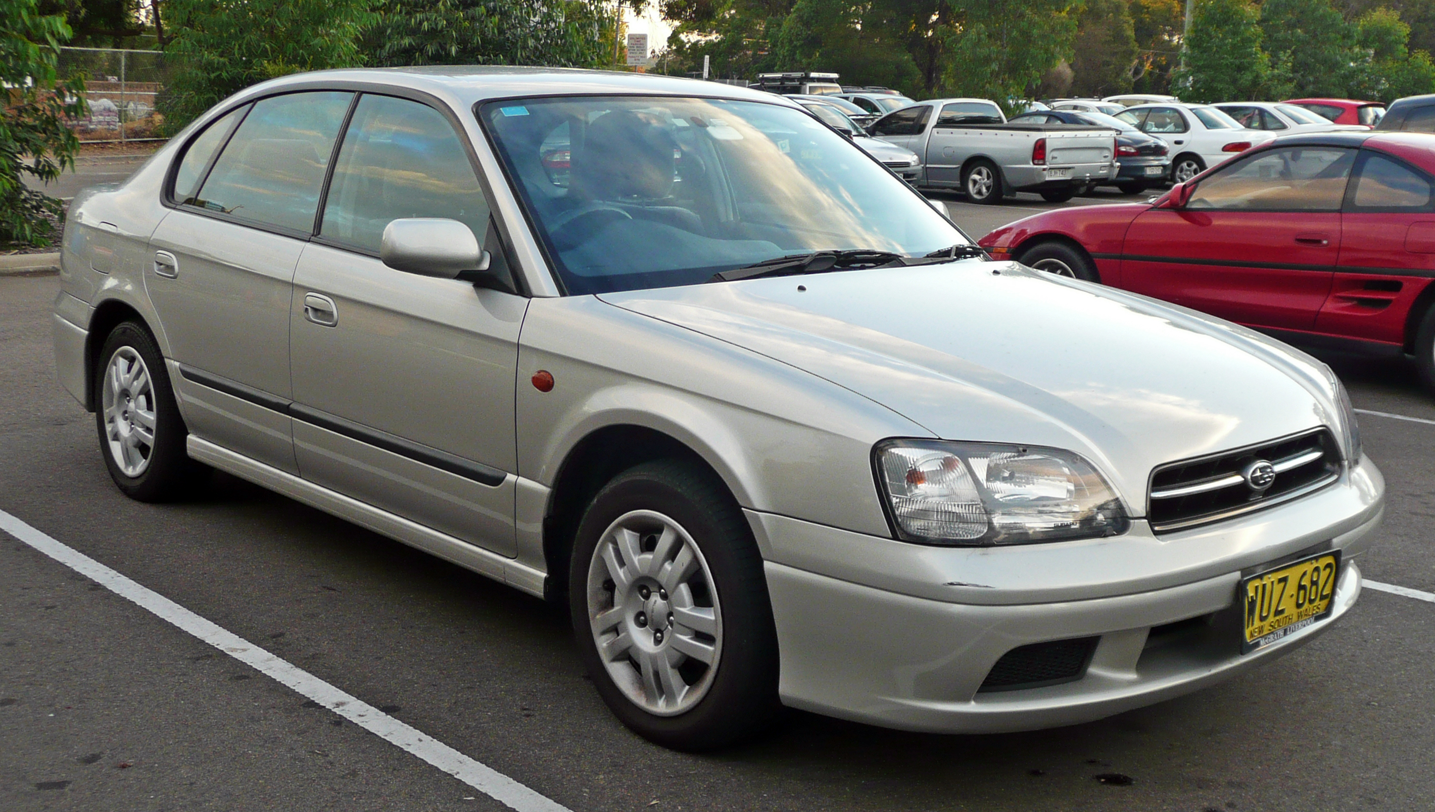 2000 Subaru Liberty (BE5 MY01) GX sedan. This has been listed as MY01 due to the new style front bumper [1]. Photographed in Kirrawee, New South Wales, Australia.